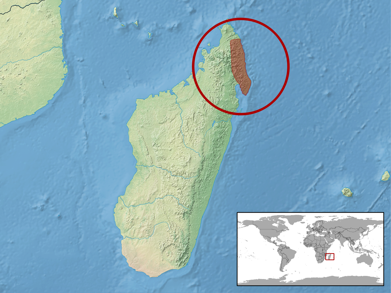 geographic distribution of Brookesia griveaudi (Native: Madagascar)